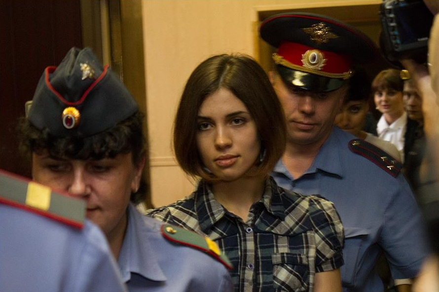 Nadezhda Tolokonnikova (Pussy Riot) at the Moscow Tagansky District Court - Denis Bochkarev.